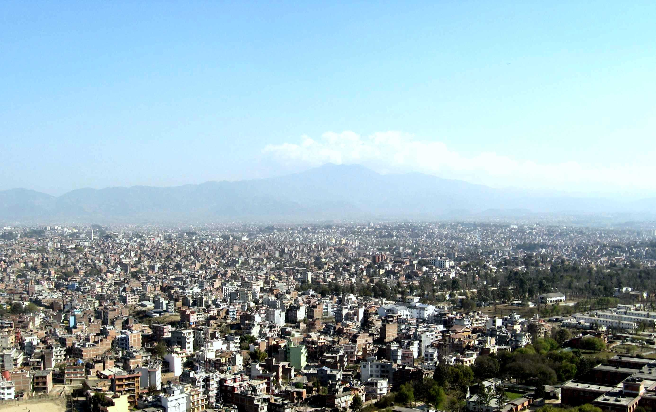 View of Kathmandu Valley from Swayambunath Stupa.